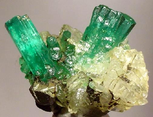 Beryl (Var.: Emerald), Calcite, Pyrite Locality: Chivor Mine, Chivor, Guavió-Guatéque Mining District, Boyacá Department, Colombia (Locality at ) A GORGEOUS and SUPERB emerald thumbnail from the Irv Brown Thumbnail Collection. This aesthetic specimen from the CHIVOR MINE features two gemmy and lustrous, rabbit ears-like emerald crystals set on calcite matrix with a lustrous pyritohedron in front as a nice accent. 1.5 x 1.2 x 1.2 cm